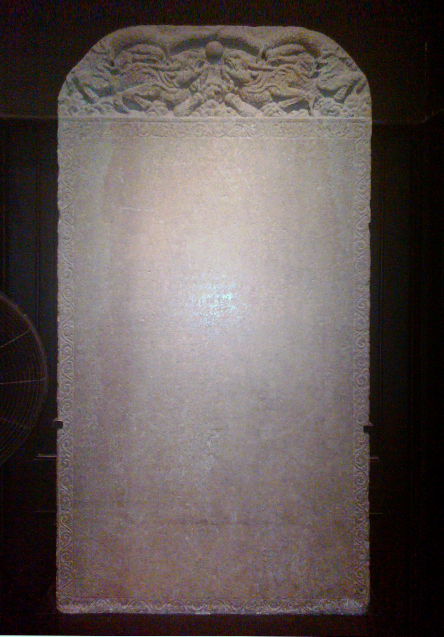 Galle Trilingual Inscription in Chinese, Persian and Tamil found in Galle, Sri Lanka